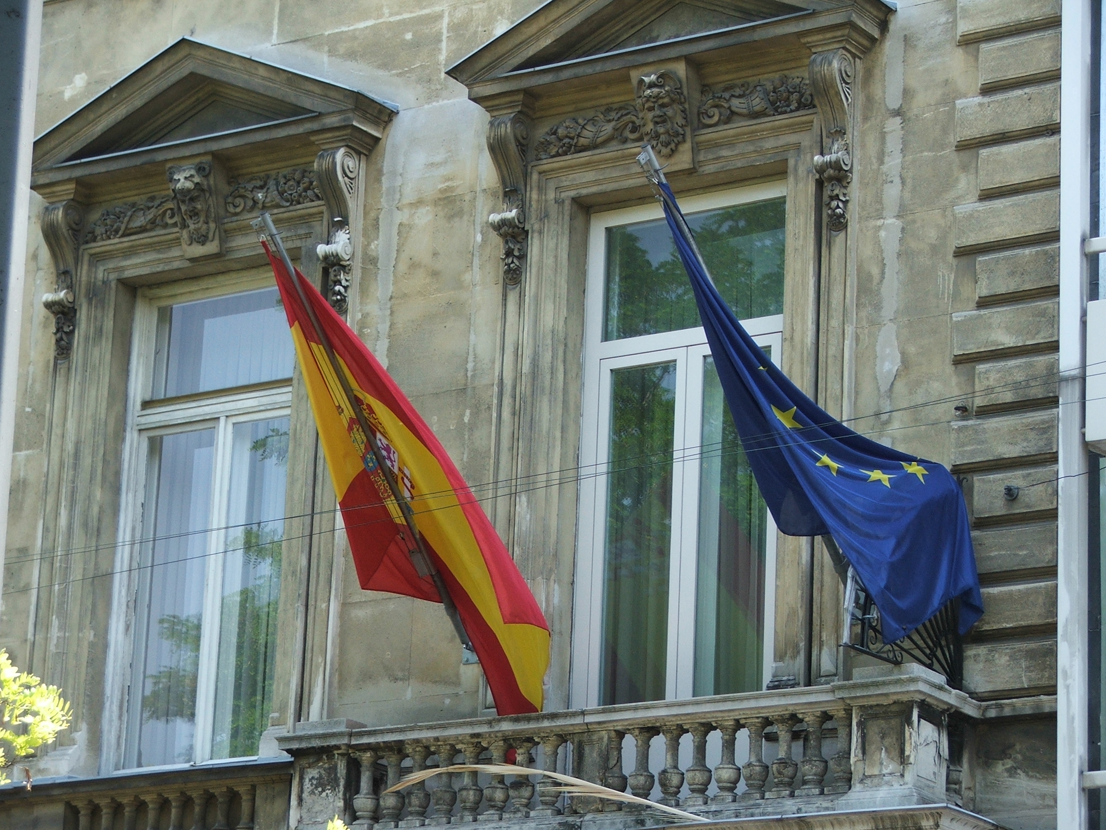 Spanish embassy in Vienna.